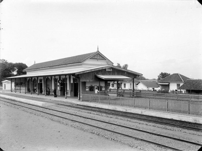 Railway station Gawok in the Residency of Surakarta, Java